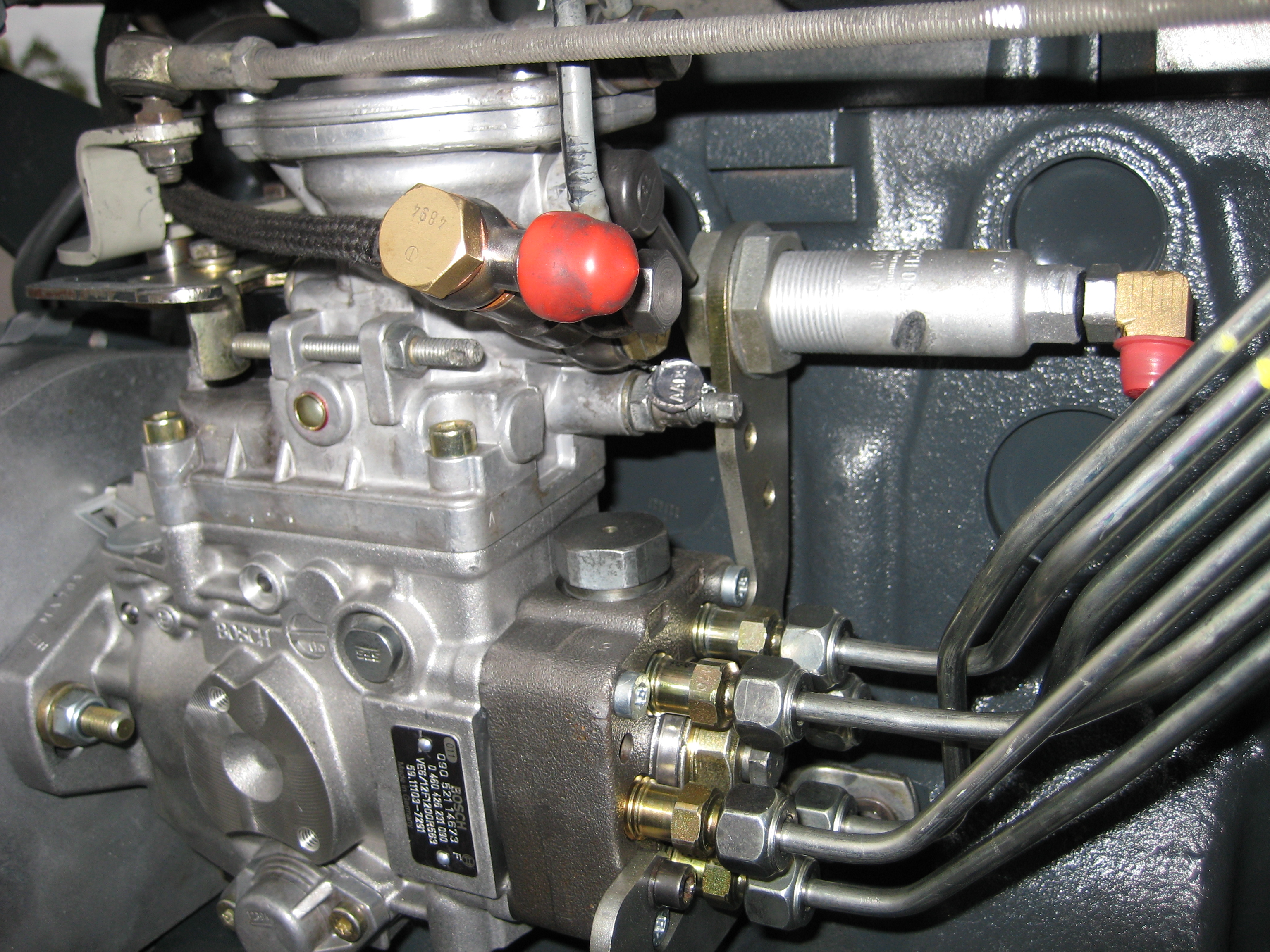 Bosch rotary injection pump